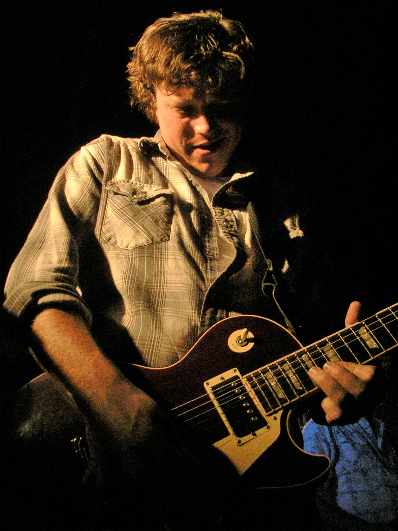 Rivers Langley, , User:Staeckerbot/Duplicate-file-info